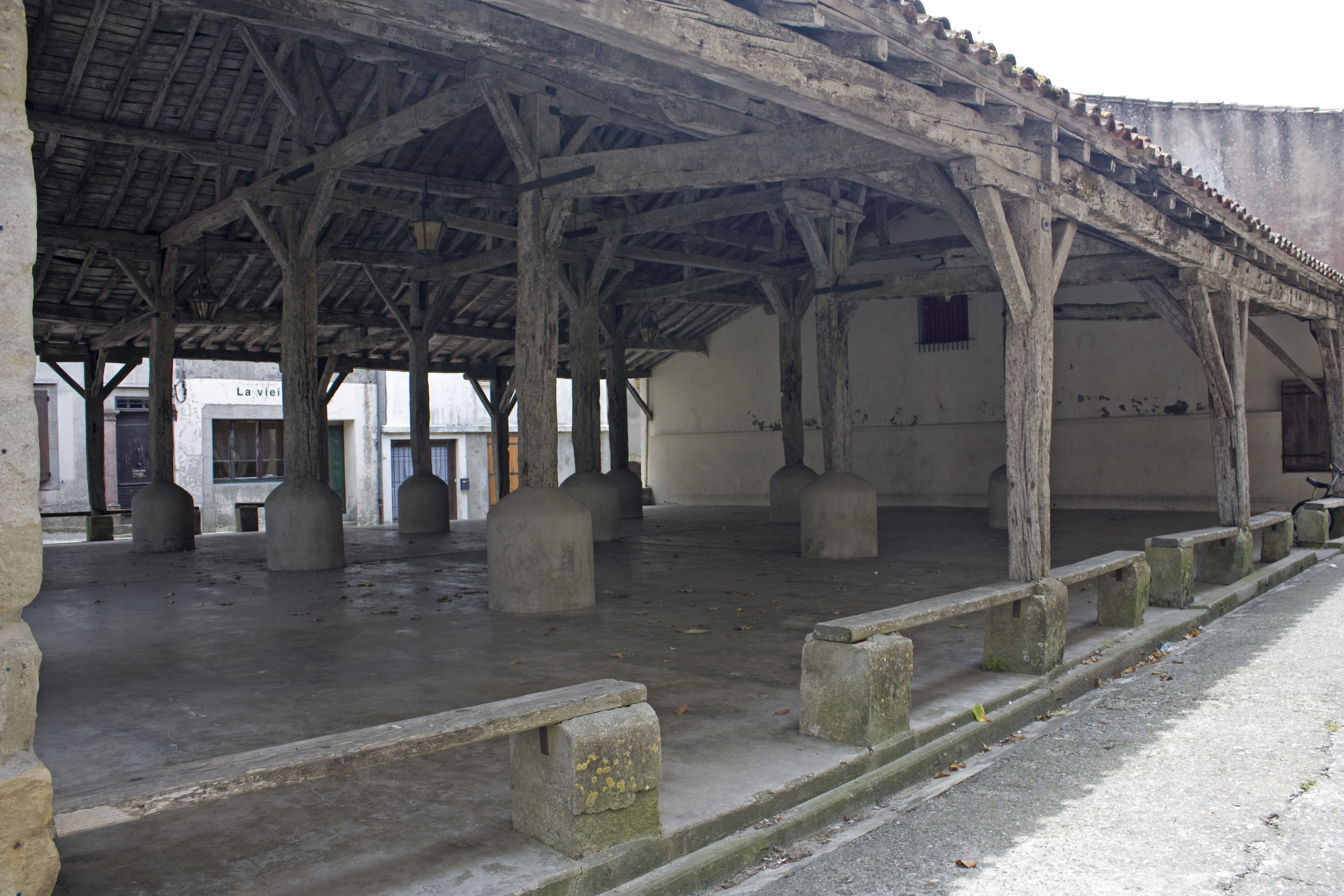 Framework of the market hall, oak, (XIIIth century approximately).